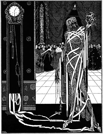 Illustration for Edgar Allan Poe's "The Masque of the Red Death" by Harry Clarke (1889-1931). Published in 1919.